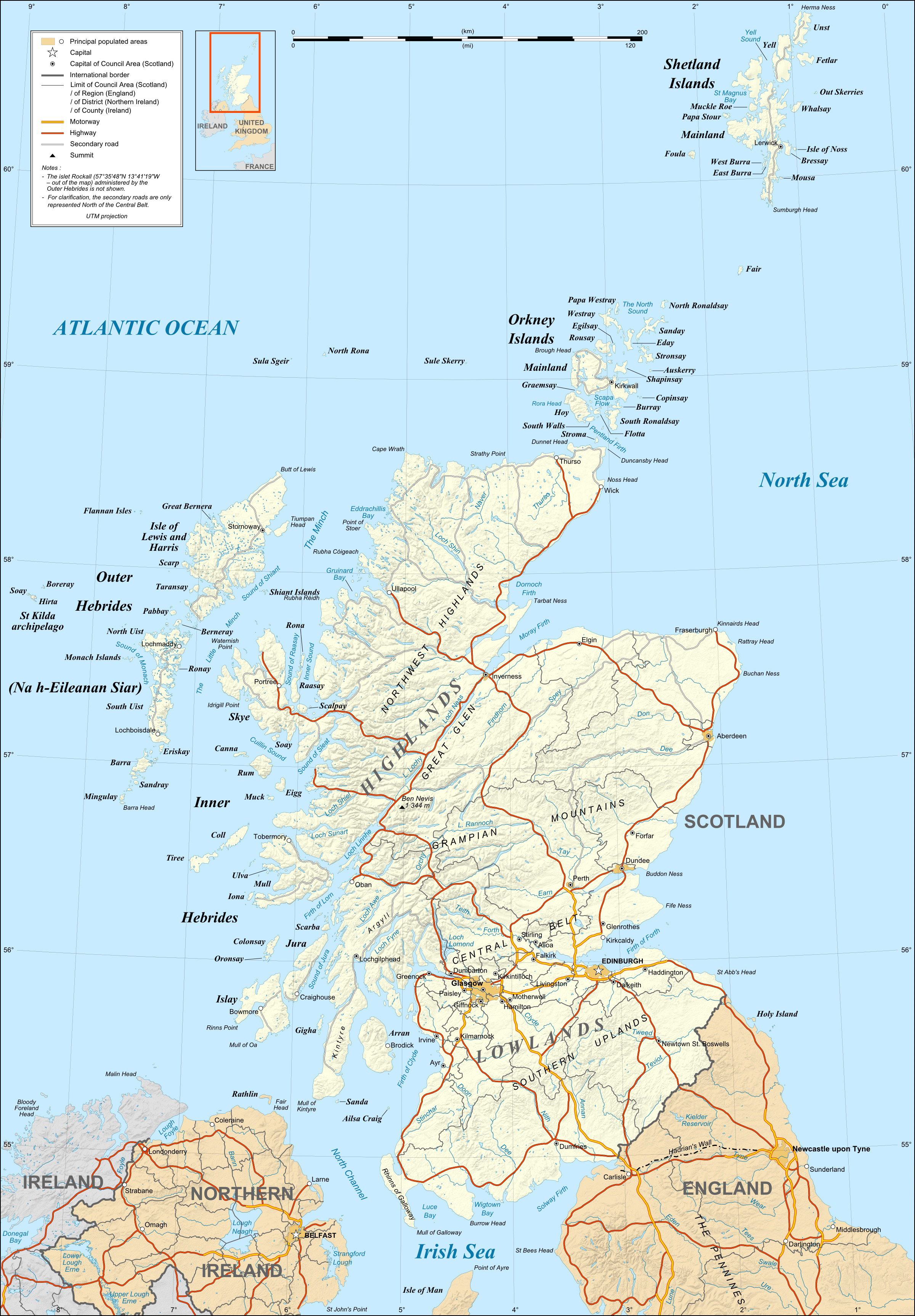 Map in English of Scotland This is a lighter raster JPG format version of Image:Scotland_map-en.svg which should be used in the article pages, the vector graphics version purpose being for modification and / or translation.